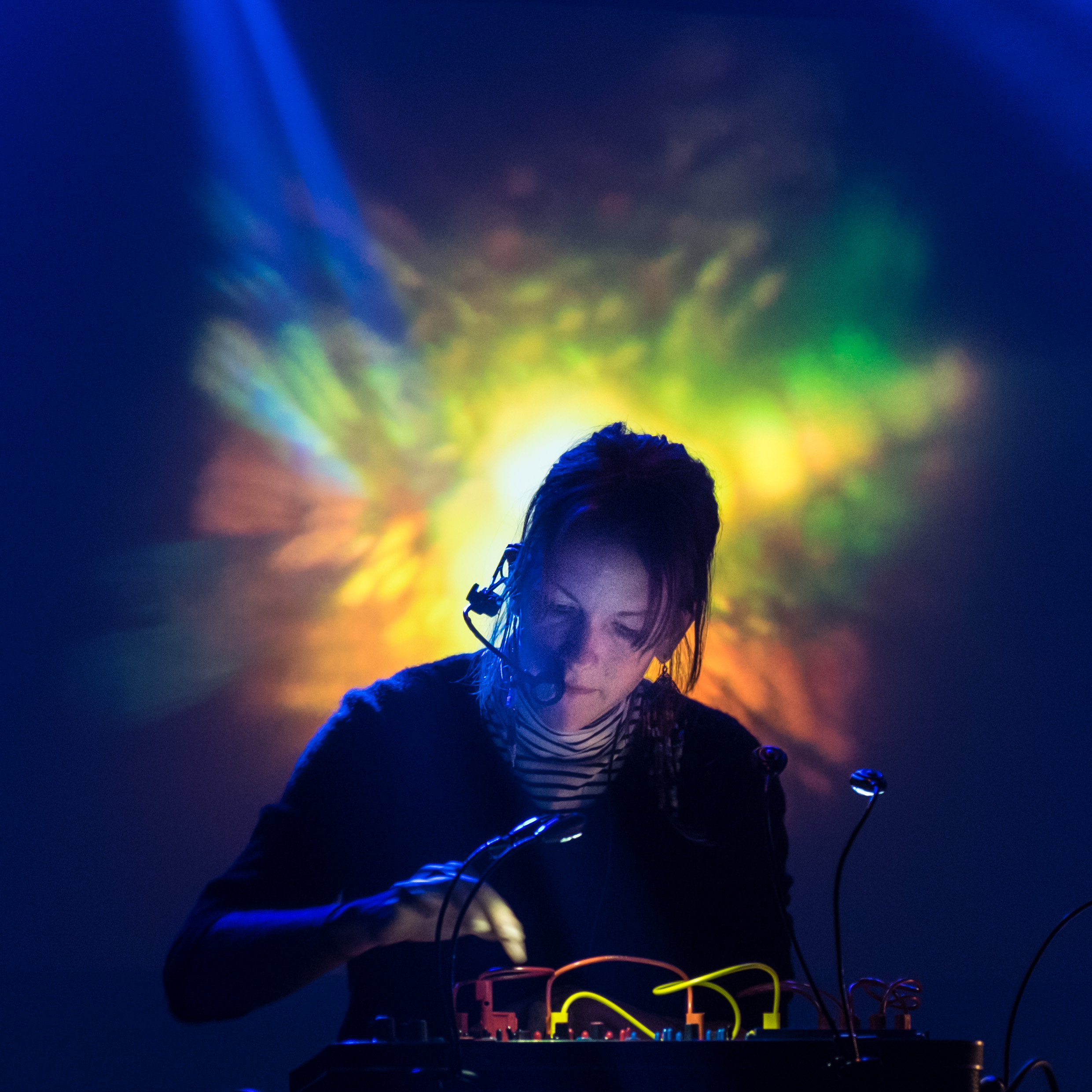 Kaitlyn Aurelia Smith playing her Buchla Music Easel on 26 March 2016 at Reims Cartonerie